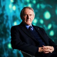 Photo of Professor Richard Cotton